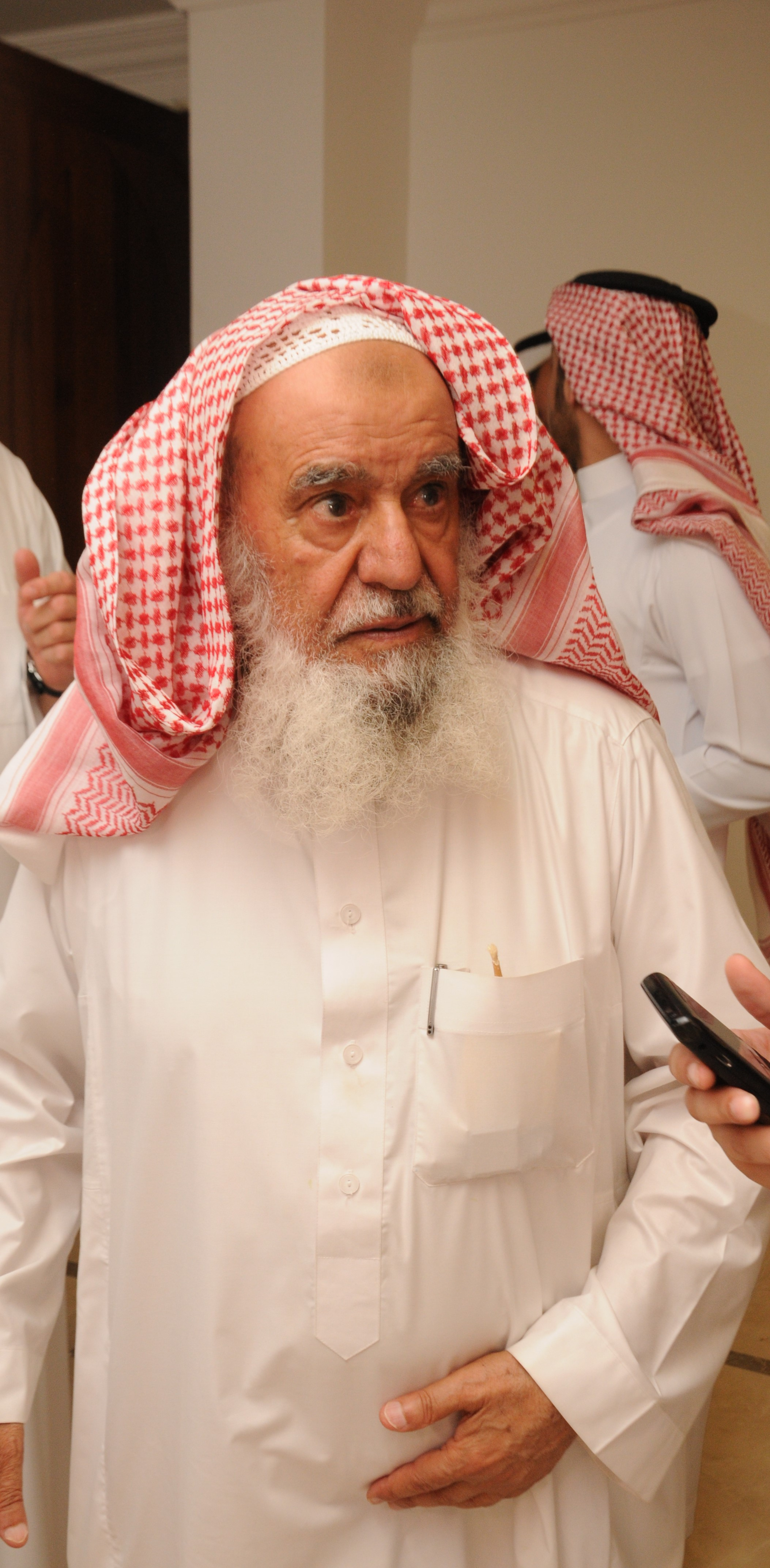 Suliman Alrajhi in Makkah in 2012